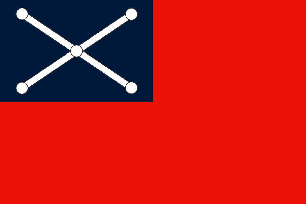 The League's Ngu Tinh Flag of Viet Nam Quang Phuc Hoi (Vietnam Restoration League)